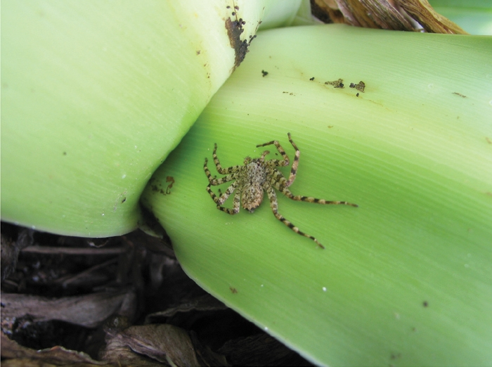 Selenops souliga